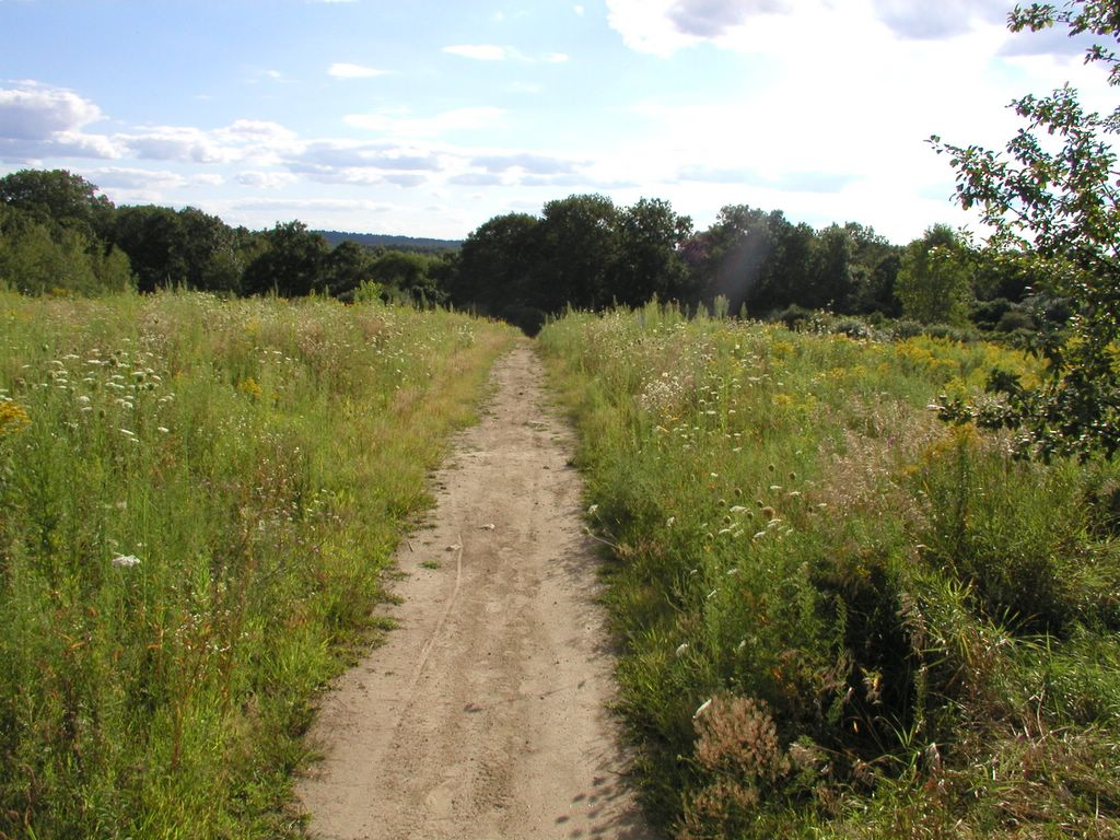 Author PS O'Reilly, picture from Mary Cummings Park, Woburn and Burlington, MA